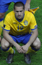 Emir Bajrami (Sweden) before the UEFA Euro 2012 qualifying match against San Marino on September 7, 2010